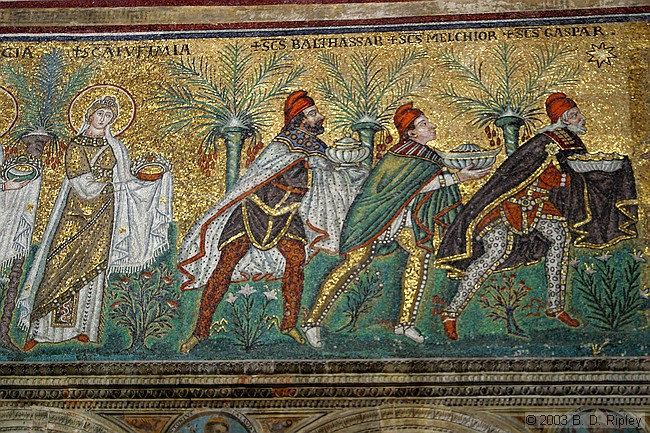 Basilica of Sant'Apollinare Nuovo in Ravenna, Italy: The Three Wise Men" (named Balthasar, Melchior, and Gaspar). Detail from: "Mary and Child, surrounded by angels", mosaic of a Ravennate italian-byzantine workshop, completed within 526 AD by the so-called "Master of Sant'Apollinare".